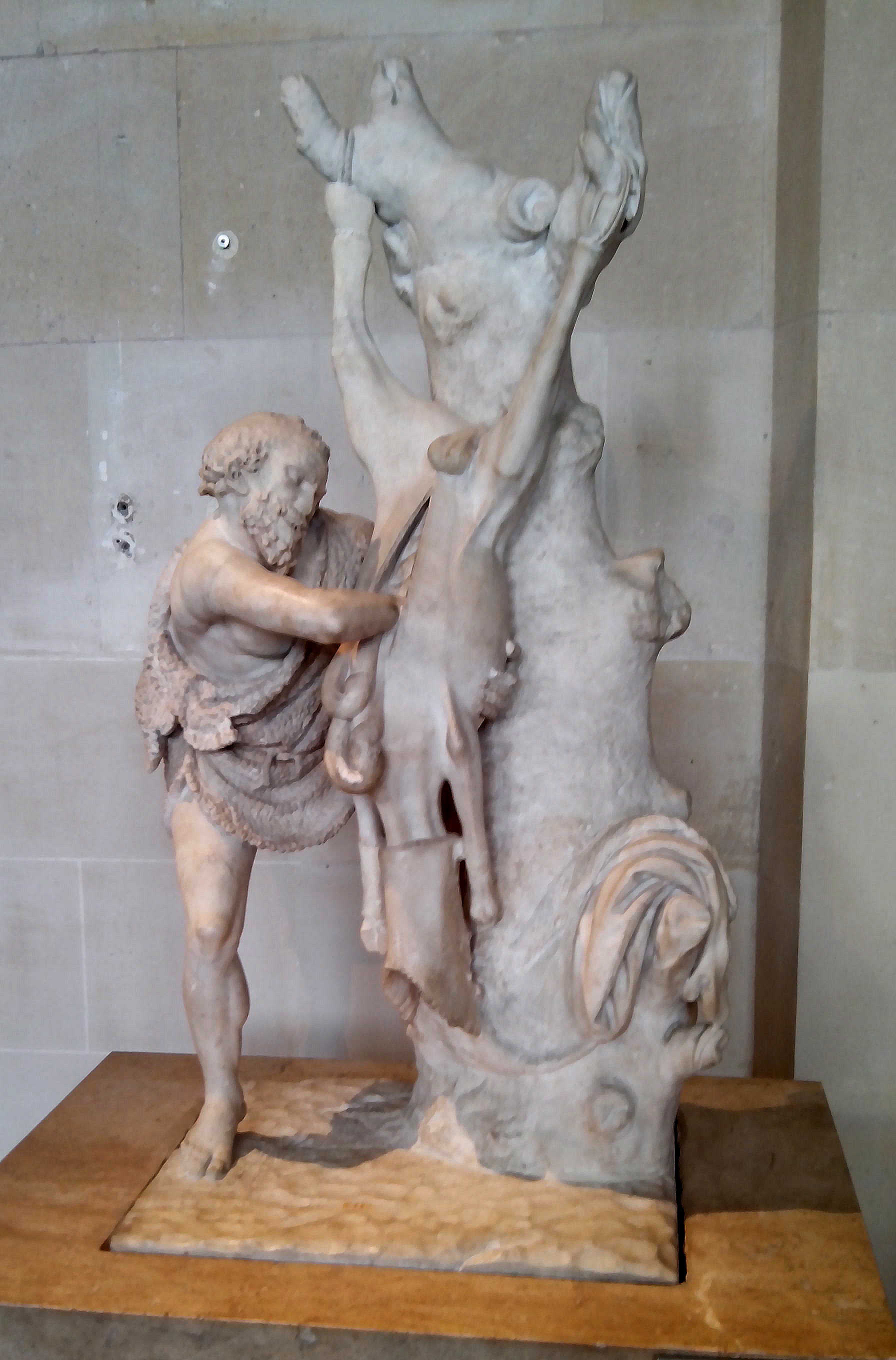 Old man flaying a kid. Marble, Roman artwork of the Imperial Era (1st-2nd century CE), copy of an Hellenistic original—right arm and leg of the shepherd are modern restorations.